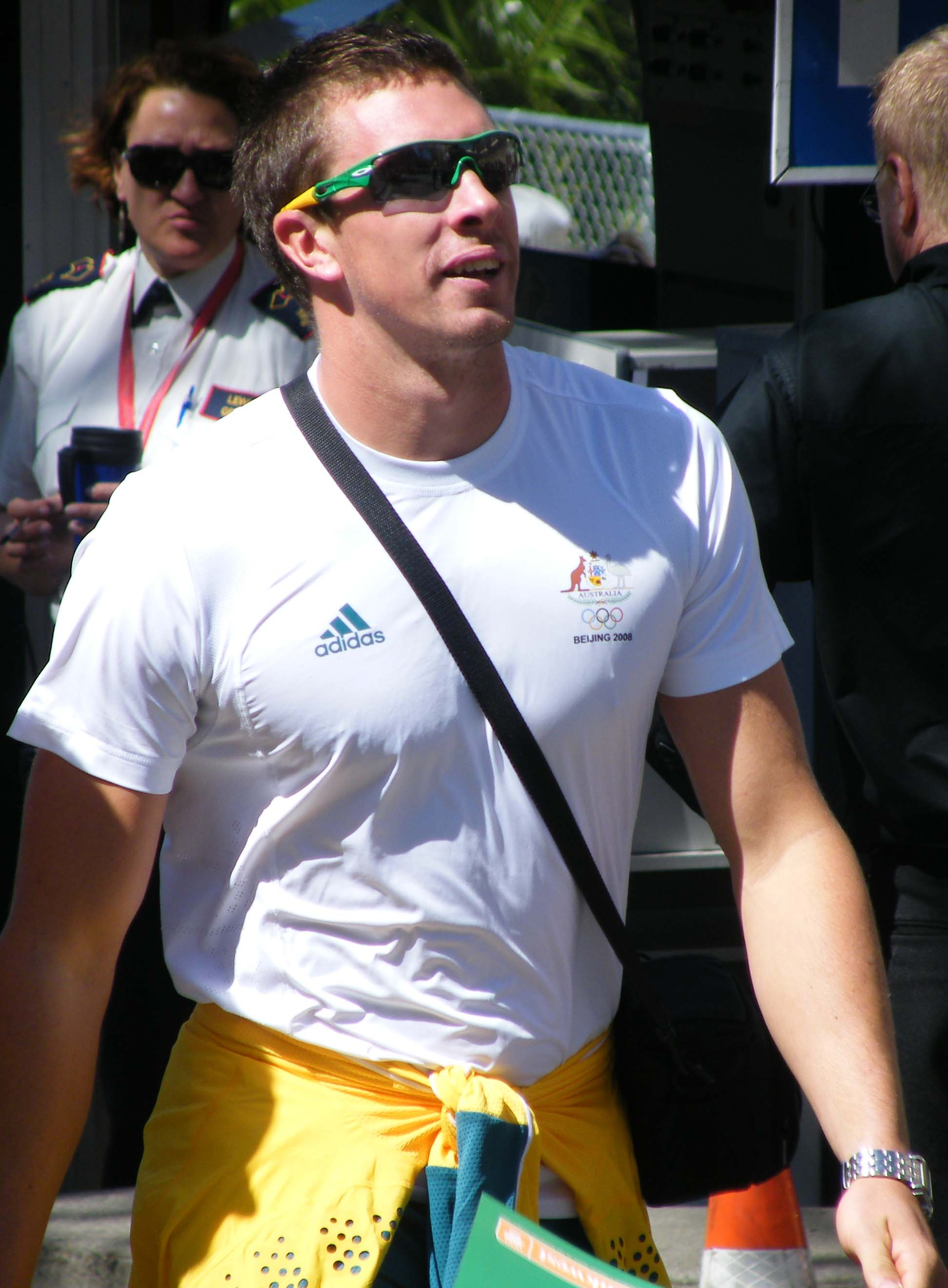 Parade of Australian Olympians - Sydney 2008 - Dave Smith - Flatwater Kayak